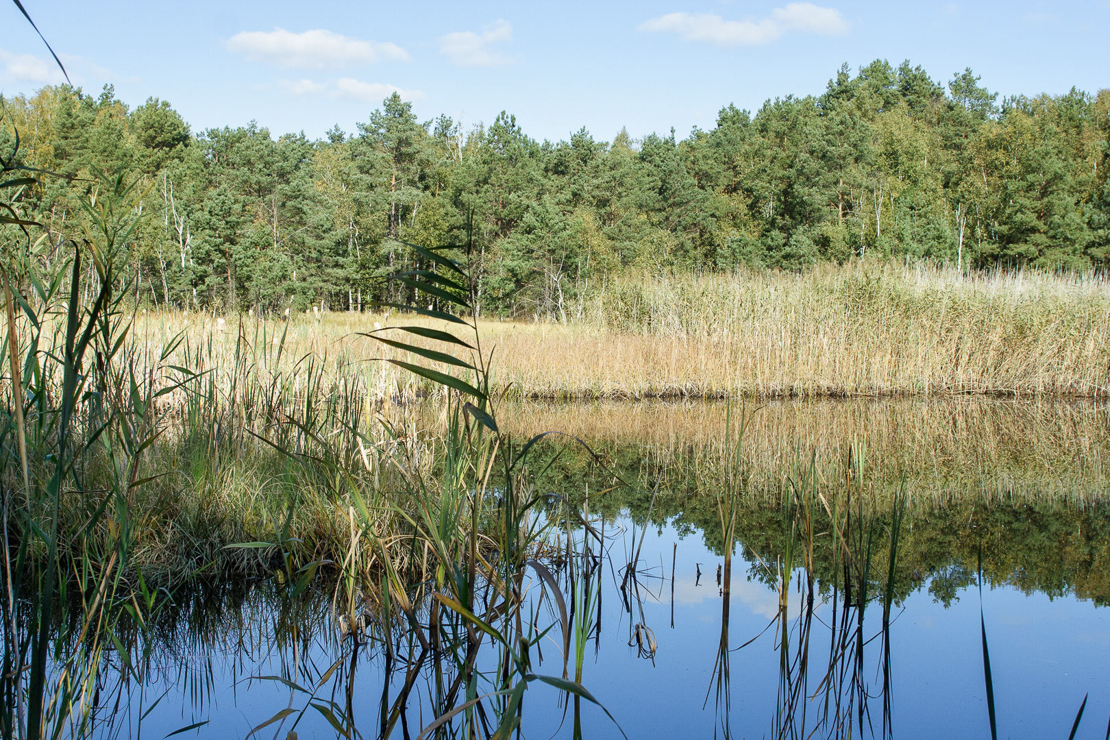 Biały Ług, the reservoir. Early autumn, low water level. Aleksandrów, Wawer, Warsaw. This is a photography of protected area with CRFOP ID PL.ZIPOP.1393.PK.72